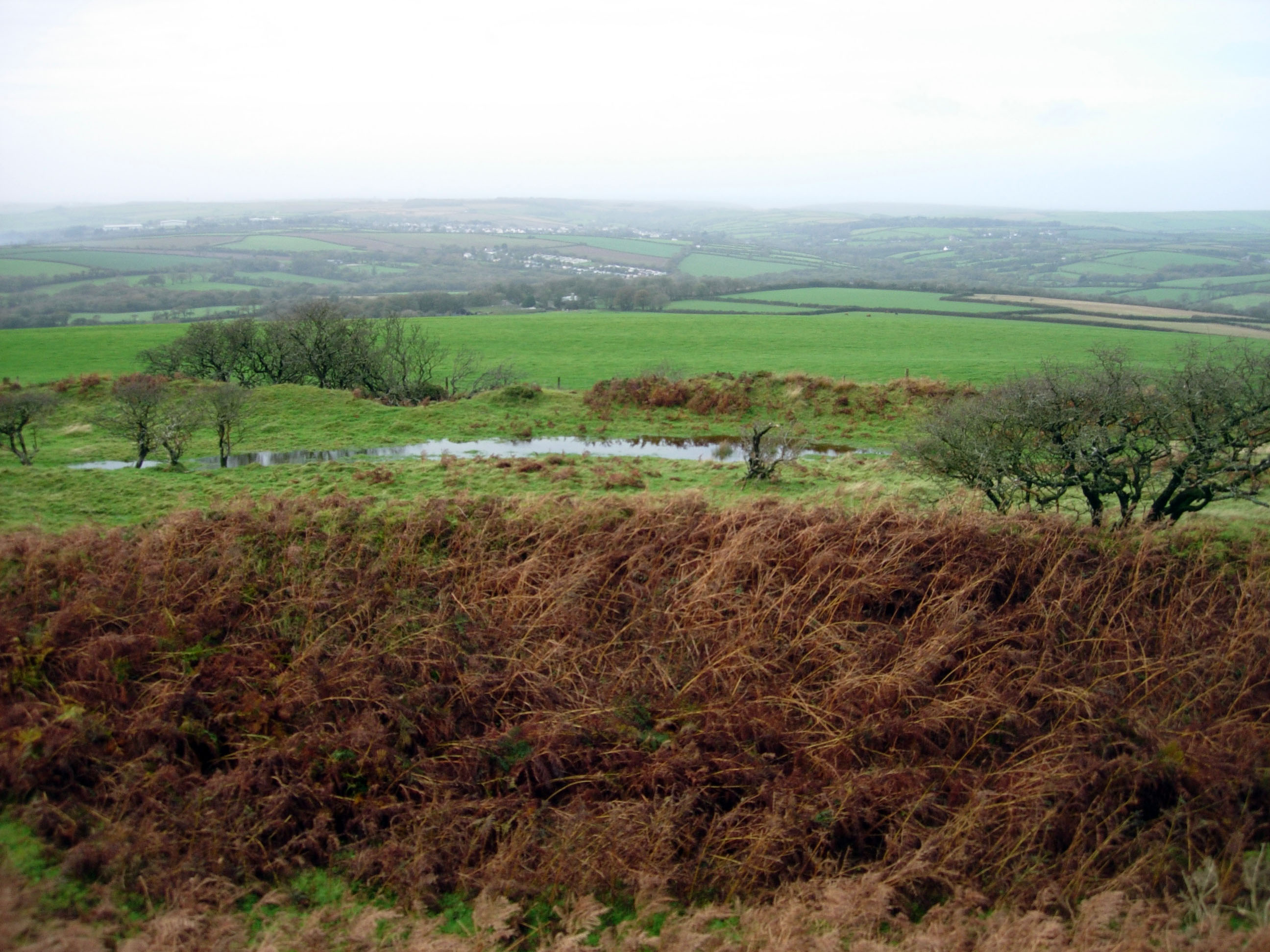 St. Columb Major, Cornwall, England, as viewed from Castle an Dinas.